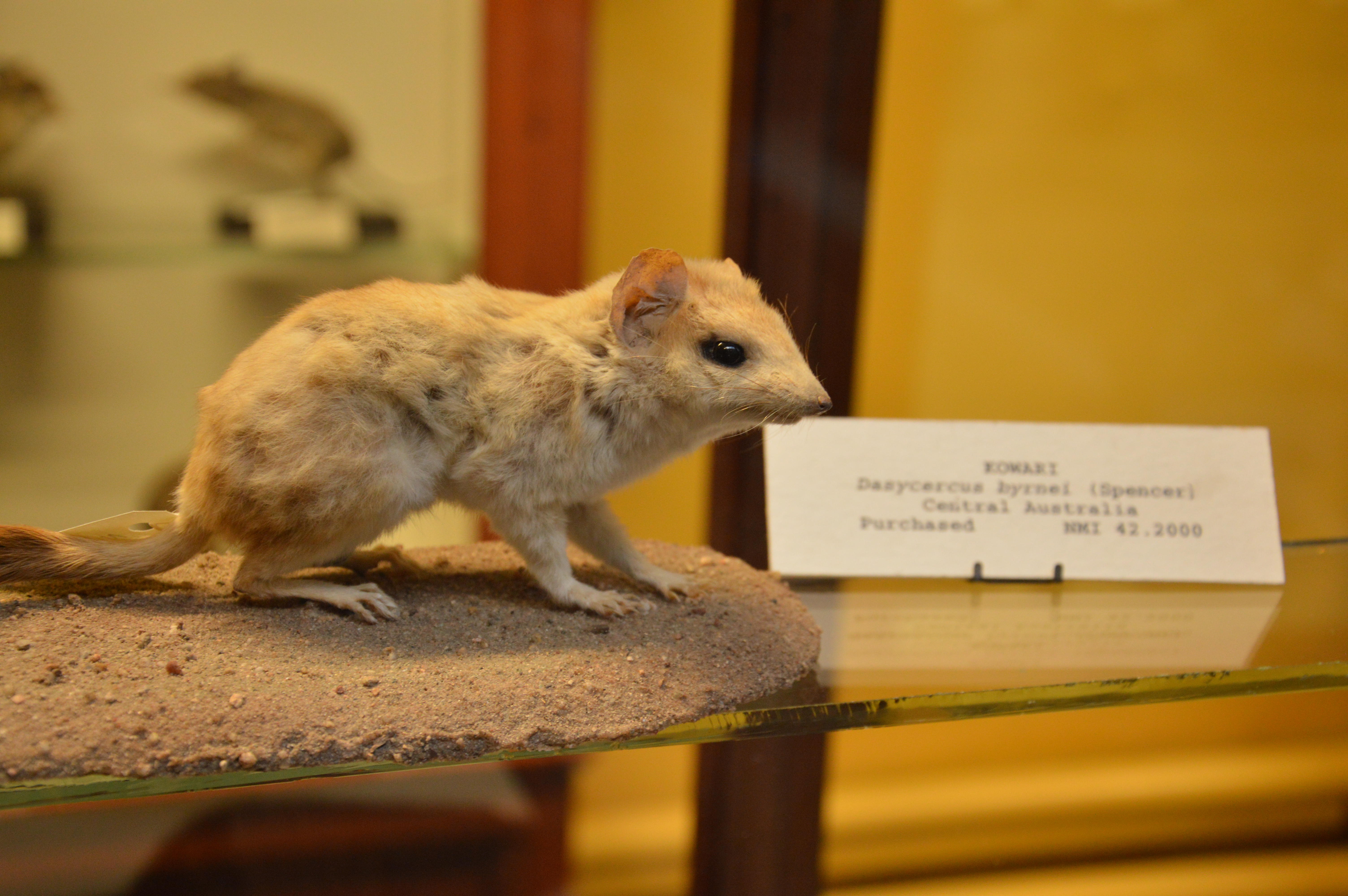 Dasyuroides byrnei at the Natural History Museum (National Museum of Ireland) in Dublin.